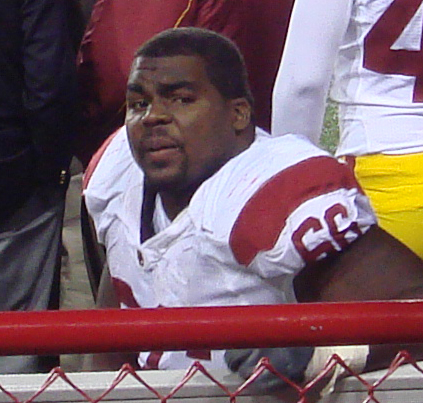 Chilo Rachal sits on the side lines with teammates in the closing minutes over a USC victory over Nebraska.